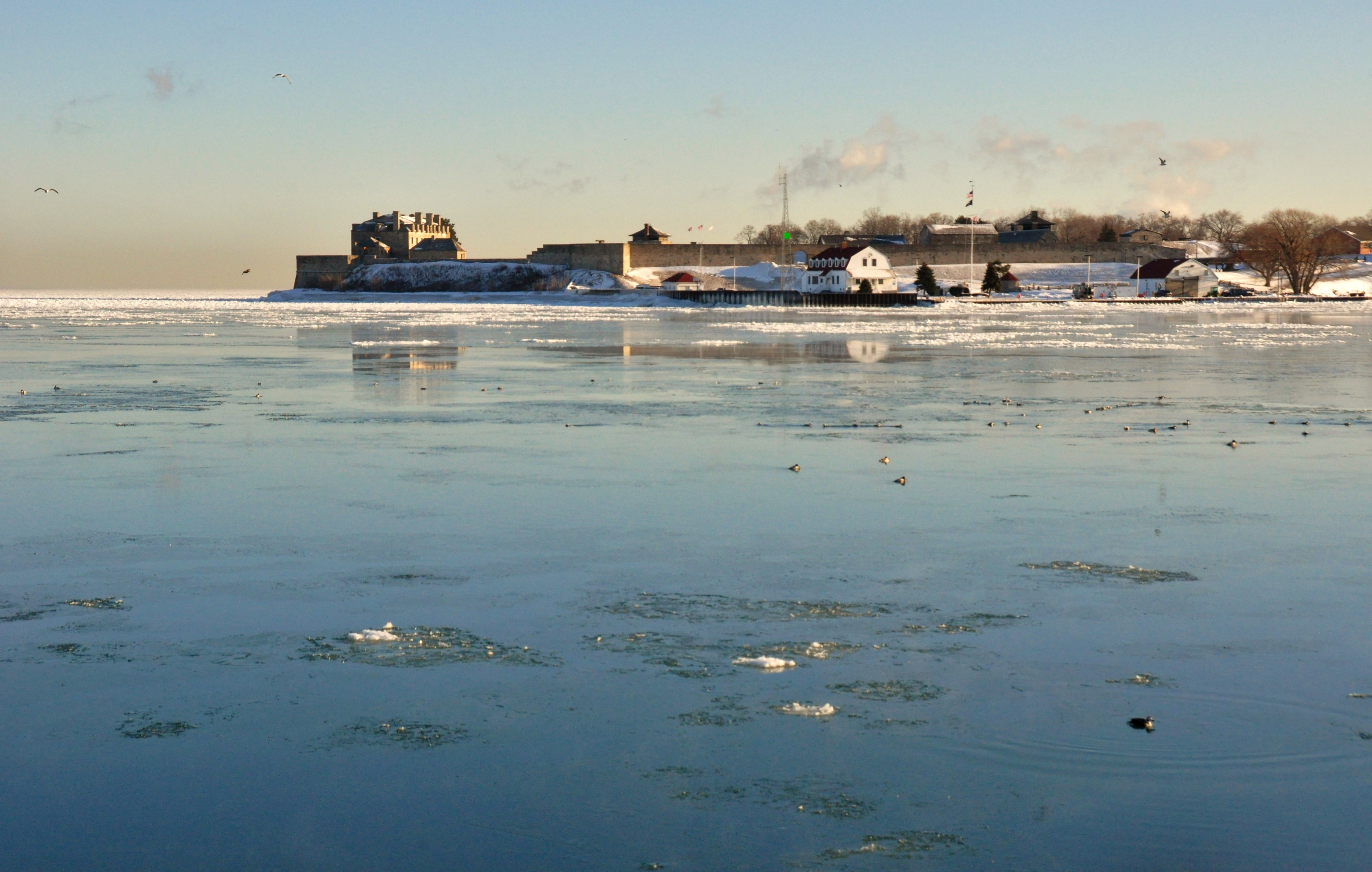 Mouth of Niagara River on the Lake Ontario. View towards Fort Niagara (US) from Niagara-on-the-Lake (Canada).